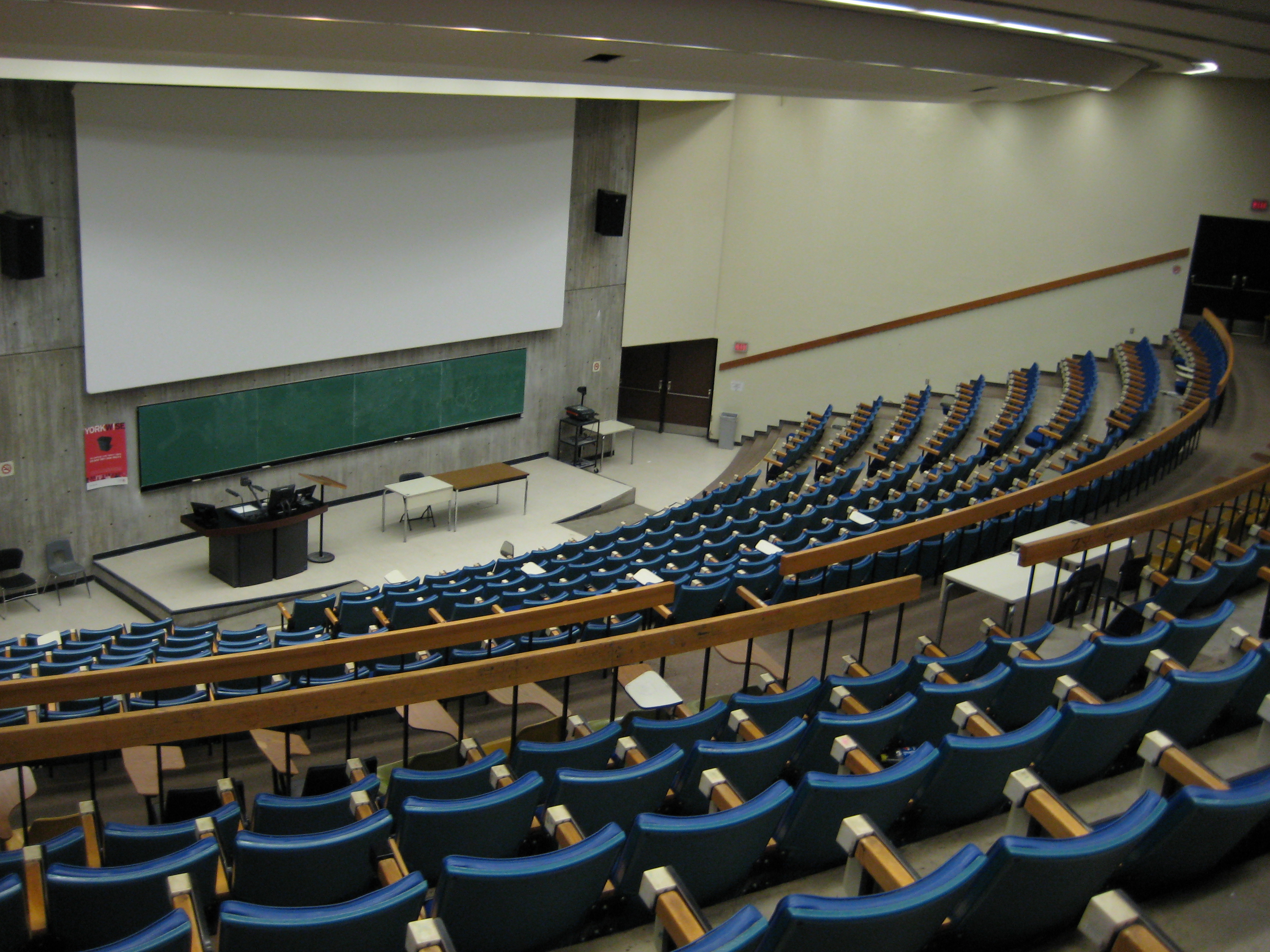 One of the large lecture halls hosted within the Curtis Lecture Halls building at York University.